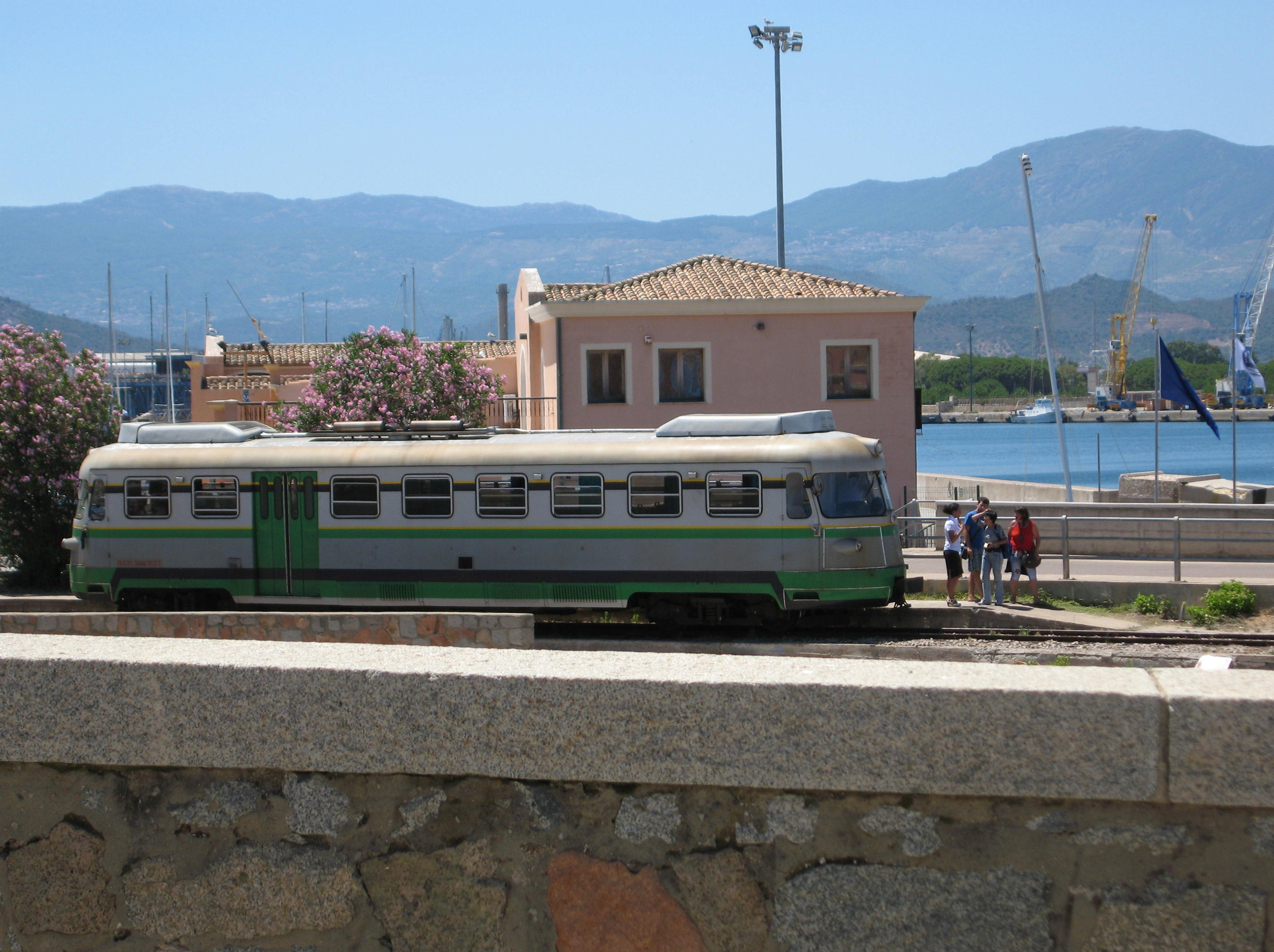 ADe railcar of ARST inside the Arbatax railway station in Tortolì, Sardinia, Italy